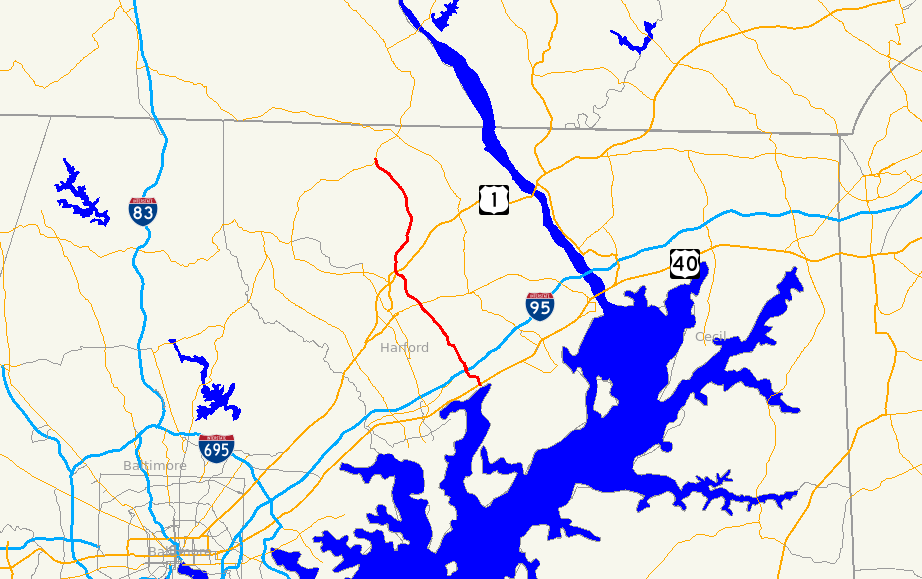 Map of Maryland Route 543